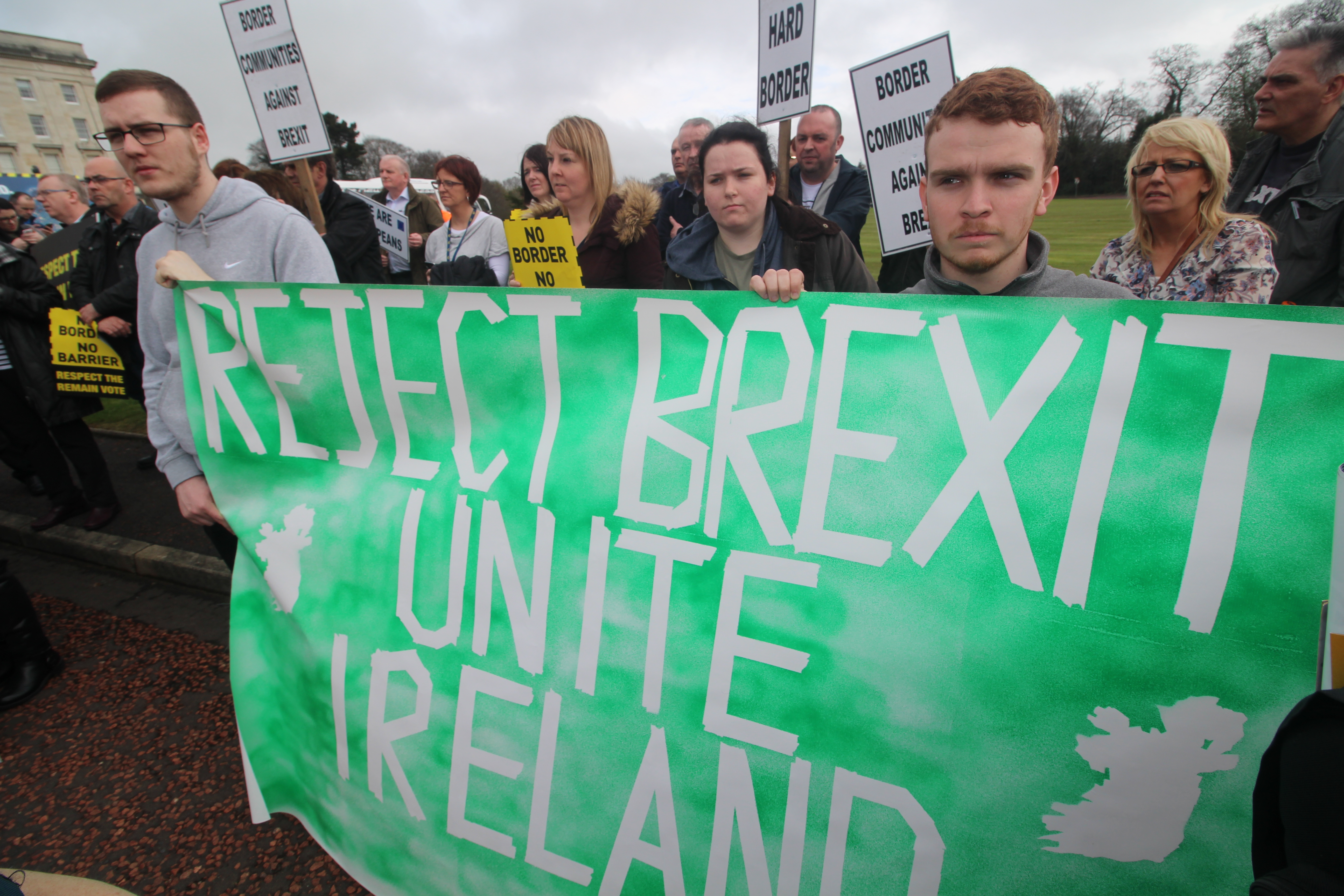 Brexit protest at Stormont